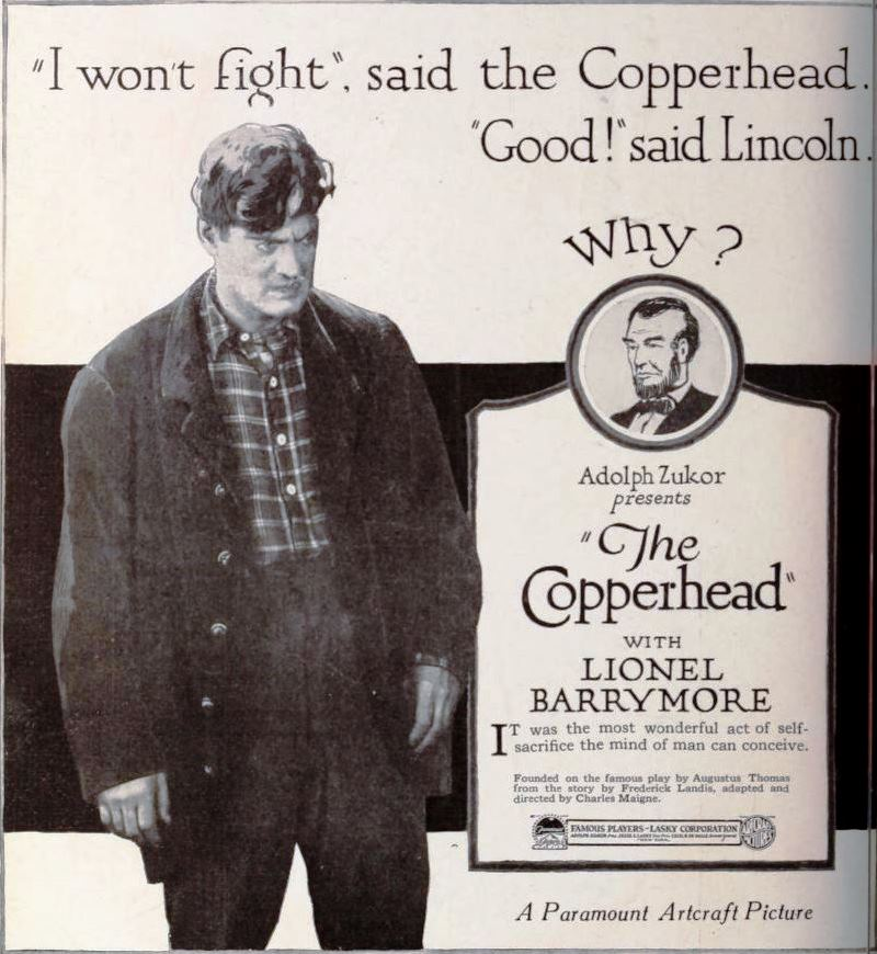 Advertisement for the American drama film The Copperhead (1920) with Lionel Barrymore, on page 2 (inside front cover) of the February 14, 1920 Exhibitors Herald.